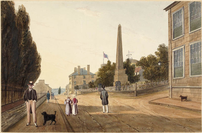 Wolfe and Montcalm Monument on Des Carrières Street, Quebec City, Quebec, c. 1828.